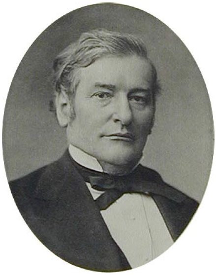 Noah Davis, New York Congressman and Judge